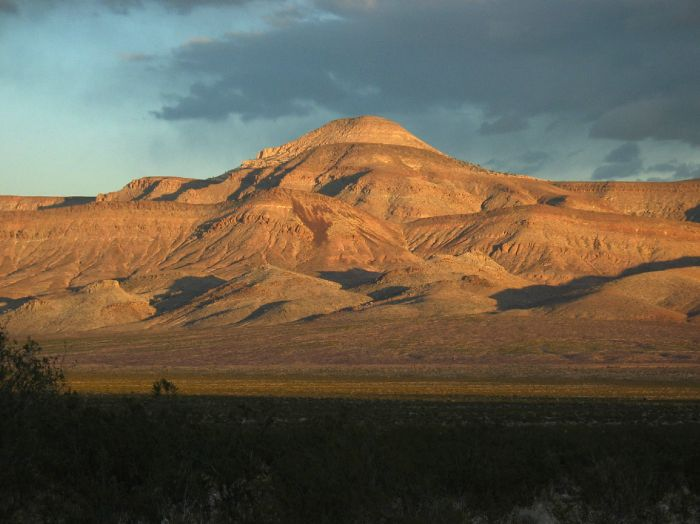 Meadow Valley range, Meadow Valley Range Wilderness Area. Conical buff-based Sunflower Mountain (shown above) sits astride the main ridgeline.